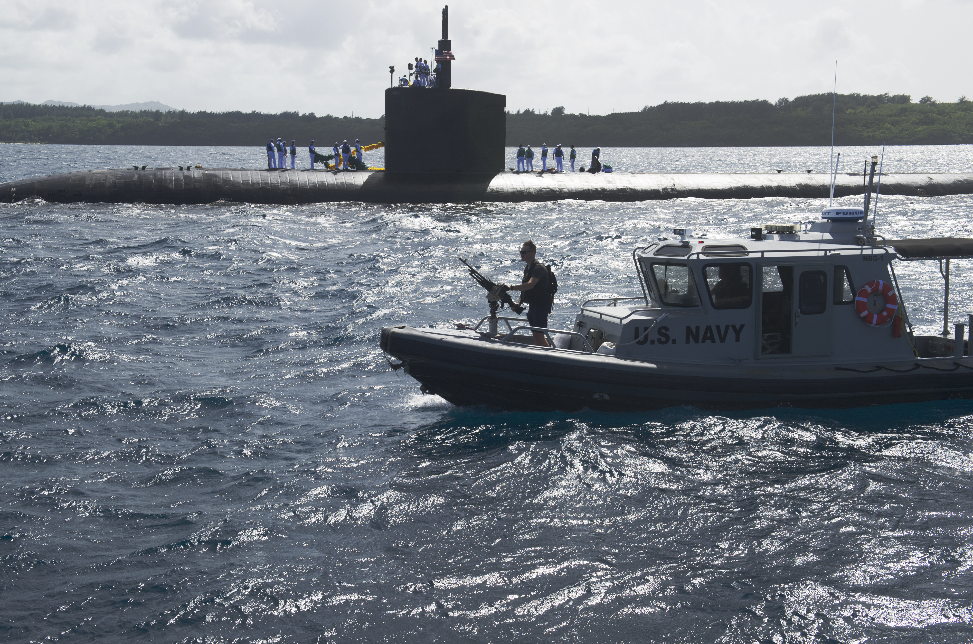 APRA HARBOR, Guam (Dec. 20, 2019) Naval Base Guam Harbor Security Forces escort the Los Angeles-class fast attack submarine USS Topeka (SSN 754) as it transits Apra Harbor to return to homeport, Dec. 20, 2019. Topeka is one of four forward-deployed submarines assigned to Commander, Submarine Squadron out of Polaris Point, Guam. (U.S. Navy photo by Mass Communication Specialist 3rd Class Randall W. Ramaswamy/Released) 191220-N-OH628-0207